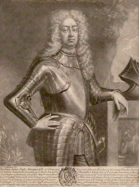 Portrait of James Butler, 2nd Duke of Ormonde